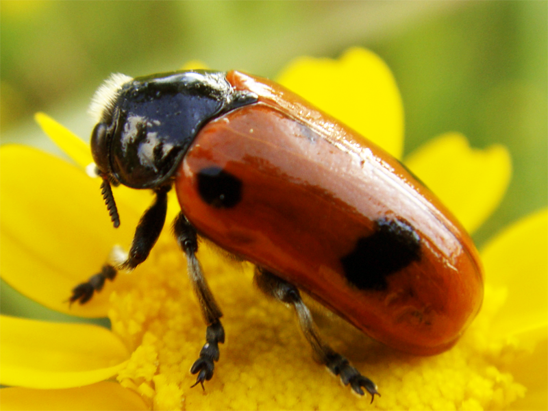 Clytra espanoli in Ansião, Leiria, Portugal